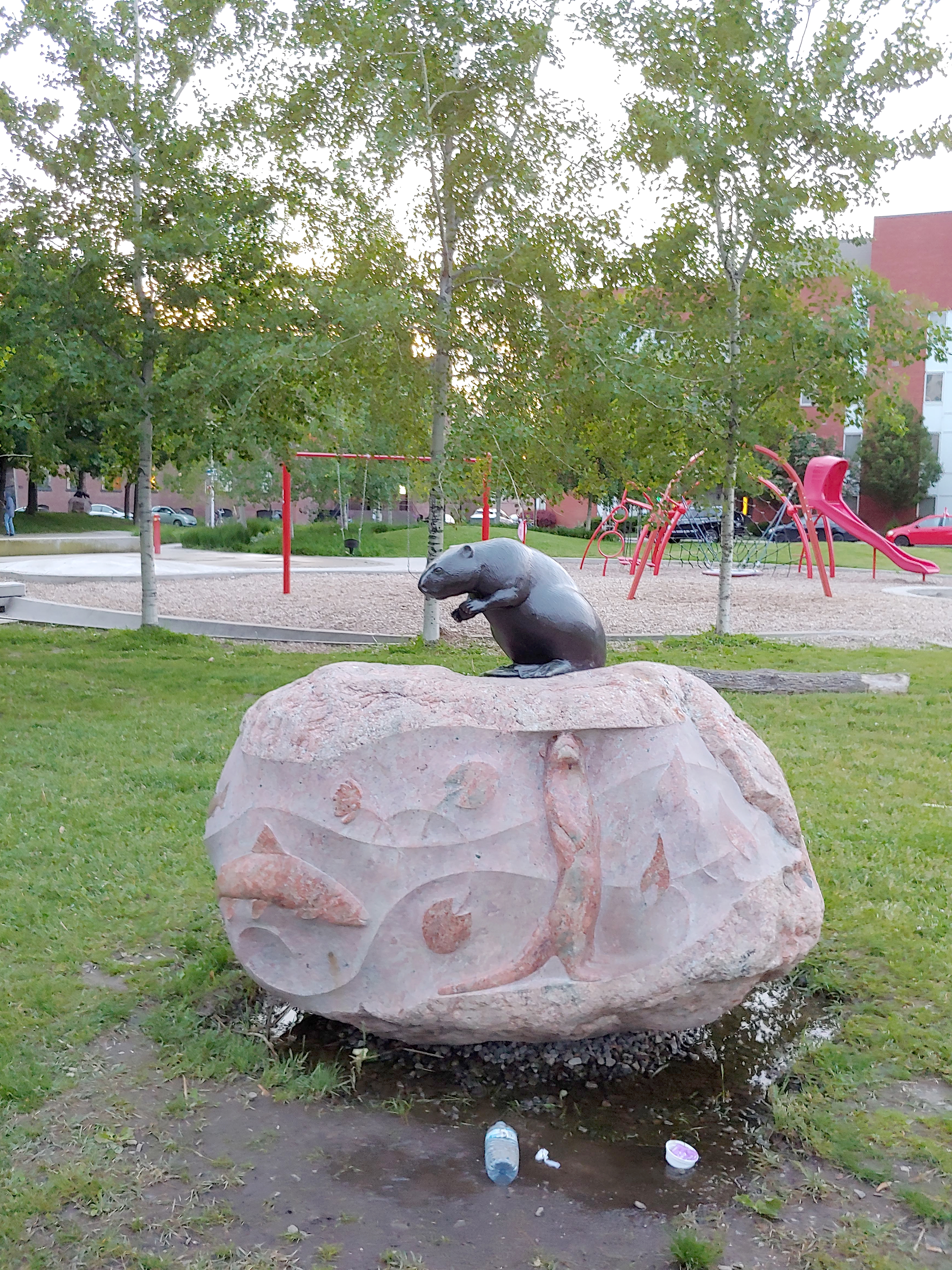 Beaver, part of Echo, a public artwork by Mary Anne barkhouse and Michael Belmore. Joel Weeks Park, Toronto.